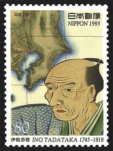 Memorial stamp of Ino Tadataka